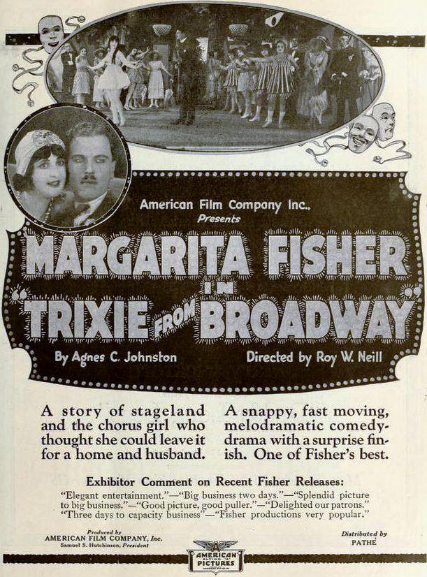 Advertisement for the production of the American drama film Trixie from Broadway (1919) with Margarita Fischer and Emory Johnson, on page 1591 of the June 14, 1919 Moving Picture World.